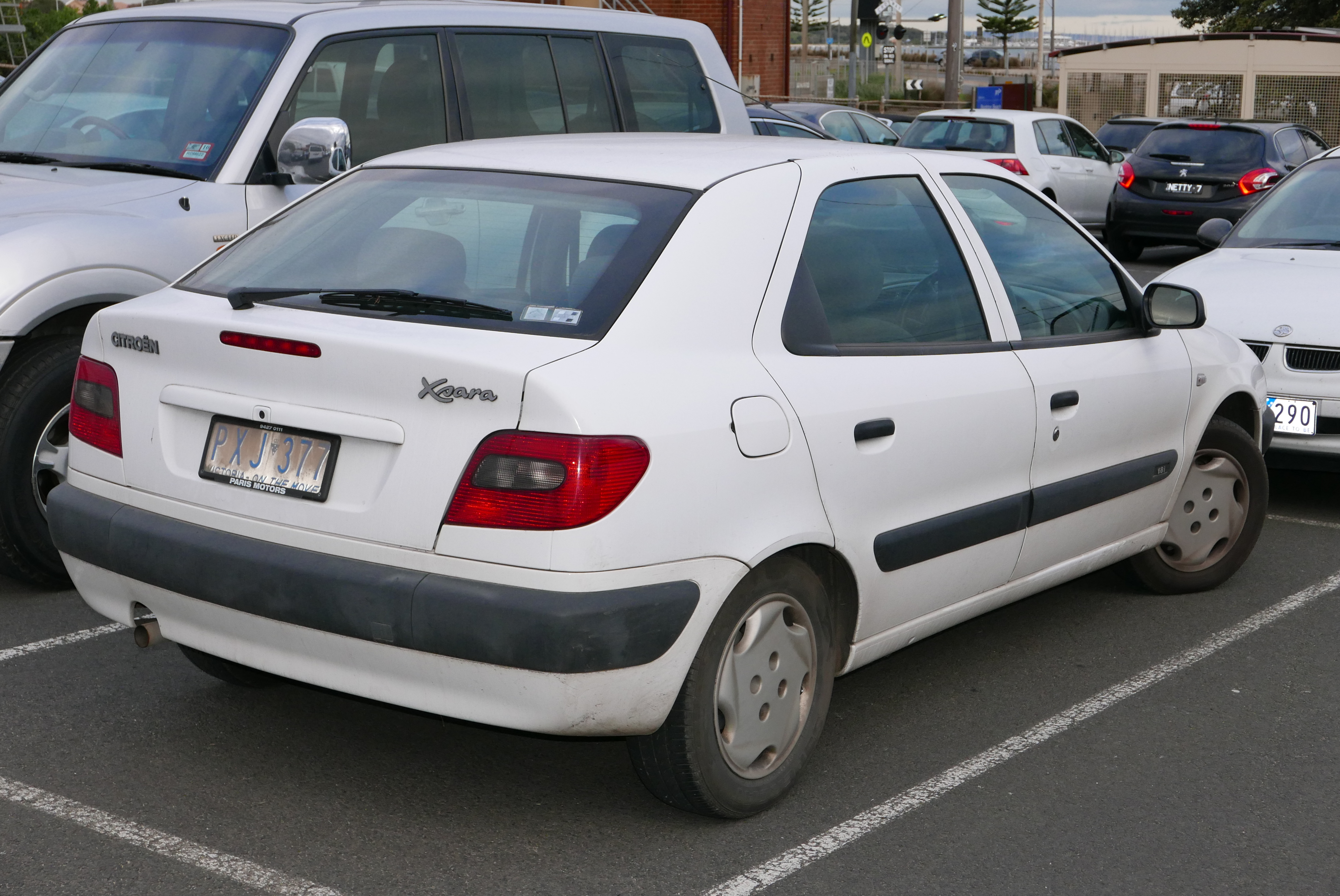 1999 Citroën Xsara 1.8i 5-door hatchback. Photographed in Brighton, Victoria, Australia. Vehicle registration enquiry results Jurisdiction Victoria Registration PXJ377 Chassis code VF7N1LFZM36546659 Engine code 10KJL82010377 Compliance date 1999-10 Year of manufacture 1999